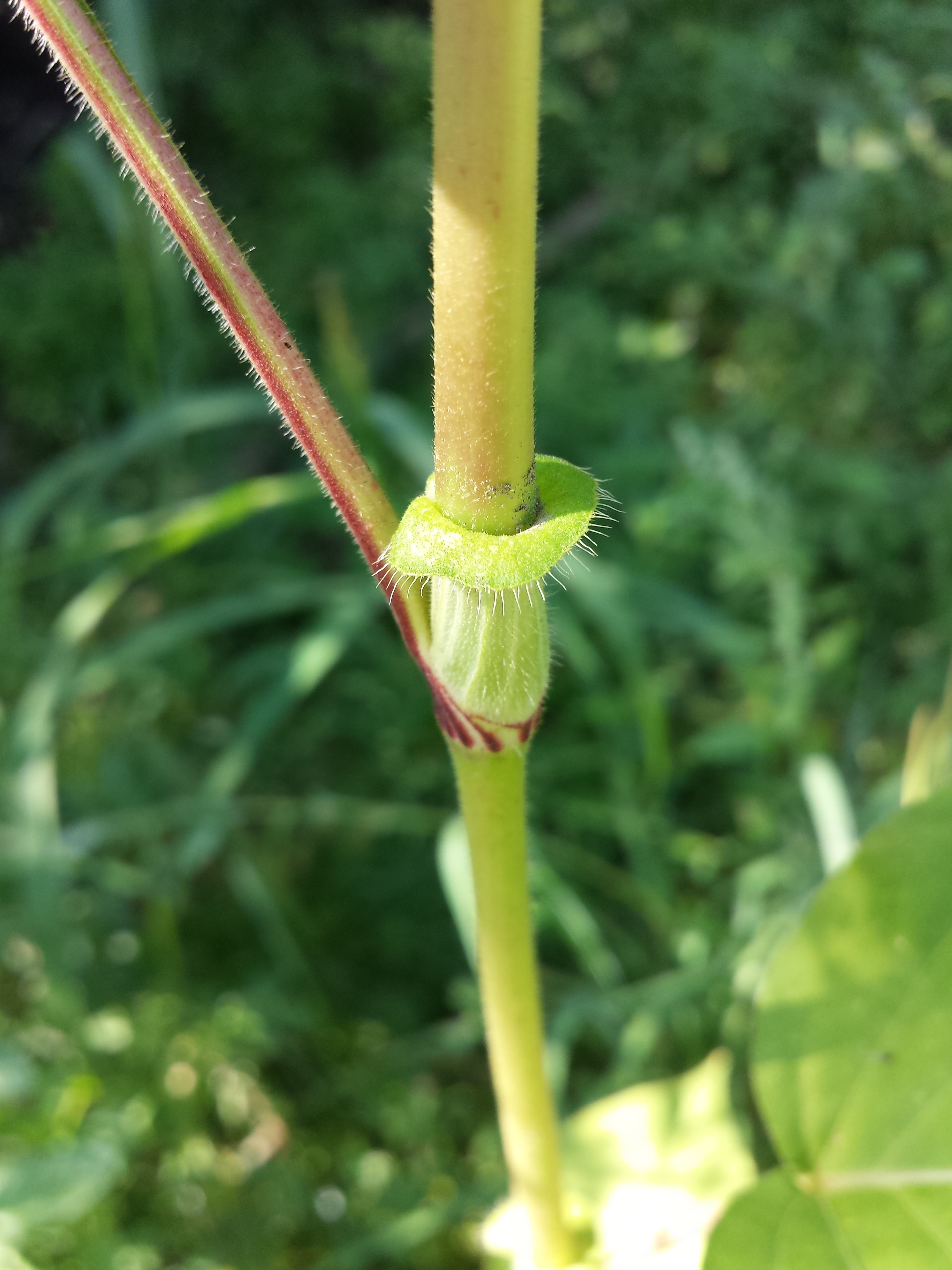 Stipe with ochrea Taxonym: Persicaria orientalis ss Fischer et al. EfÖLS 2008 ISBN 978-3-85474-187-9 Location: Streitdorf, district Korneuburg, Lower Austria - 200 m a.s.l. Habitat: dump